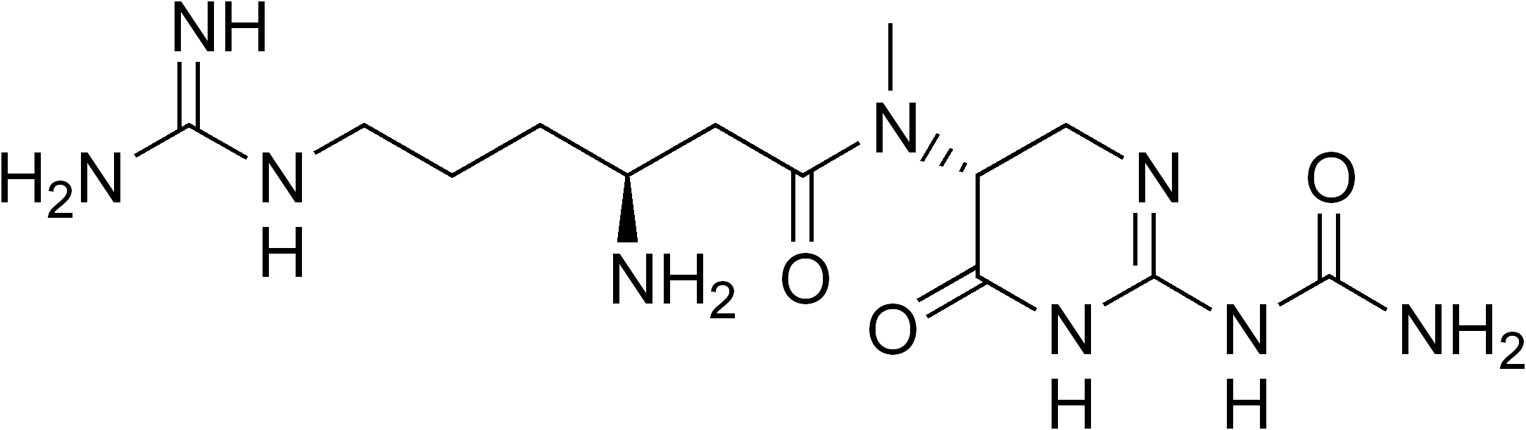 chemical structure of TAN-1057 B